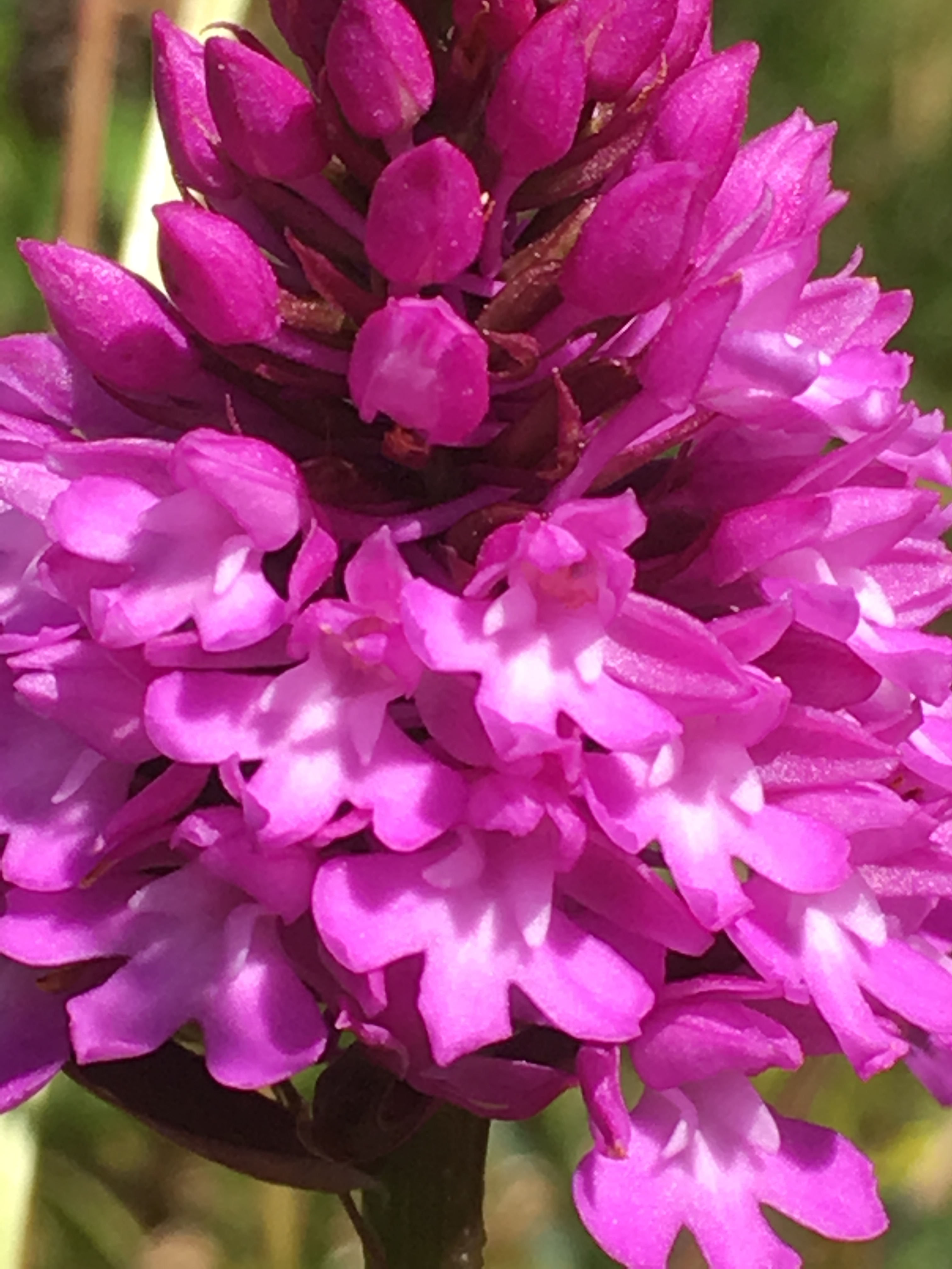 Pyramidal orchid, Anacamptis pyramidalis, photographed in 2018 at Saltfleetby-Theddlethorpe Dunes National Nature Reserve, Lincolnshire, United Kingdom